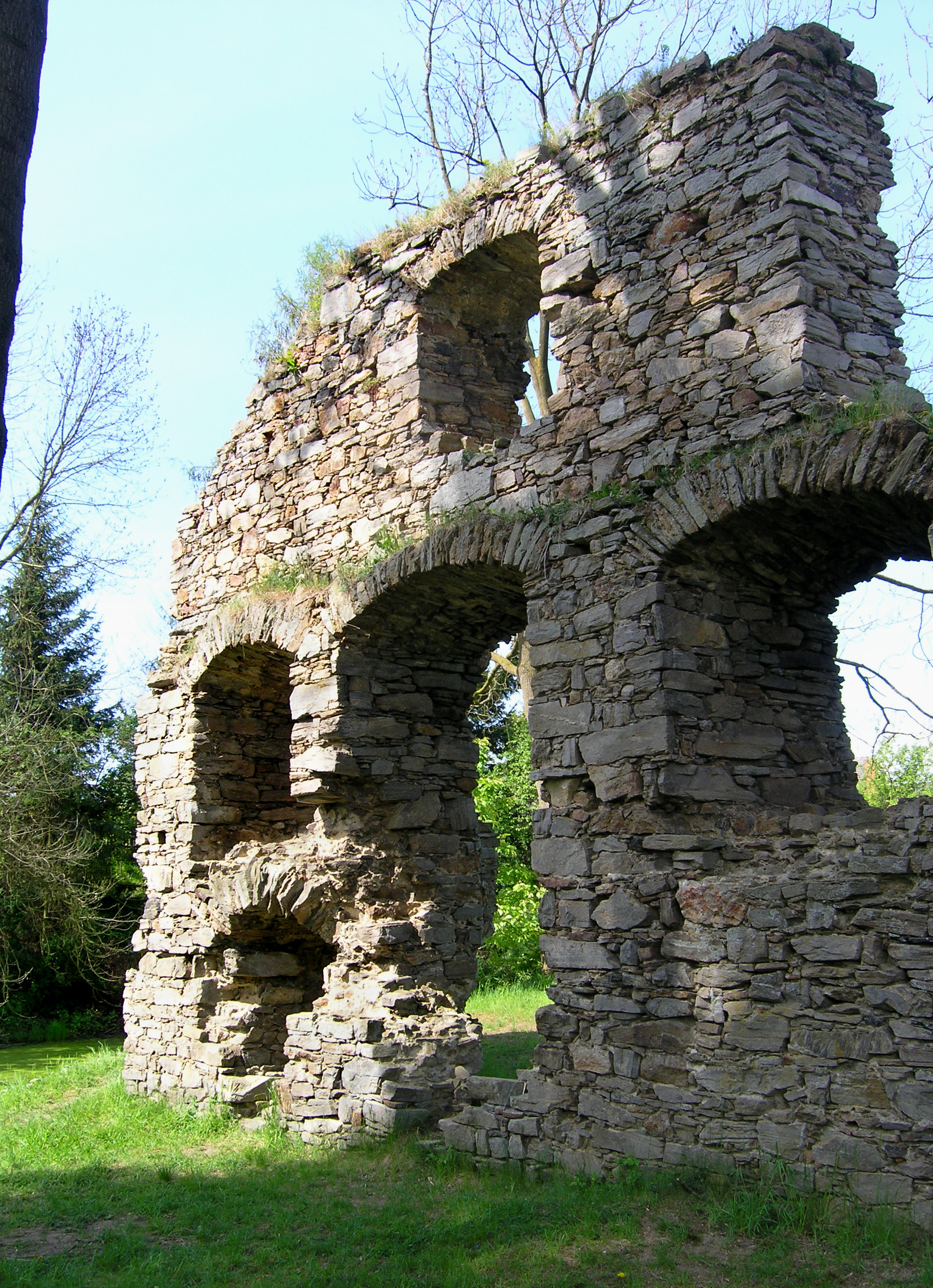 Kouty Castle in Kouty, part of Smilkov village, Czech Republic